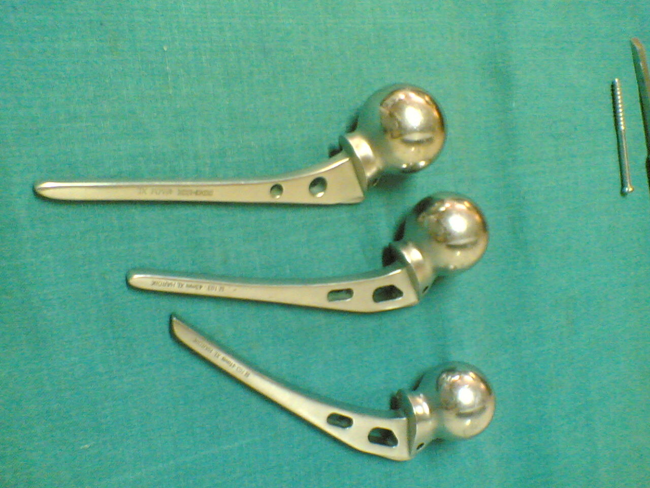 Prostheses for use in orthopaedic surgery